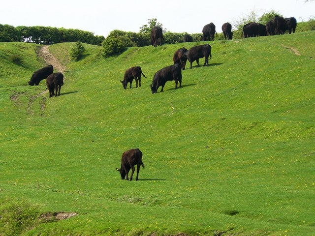 Cows on Gotham Hill